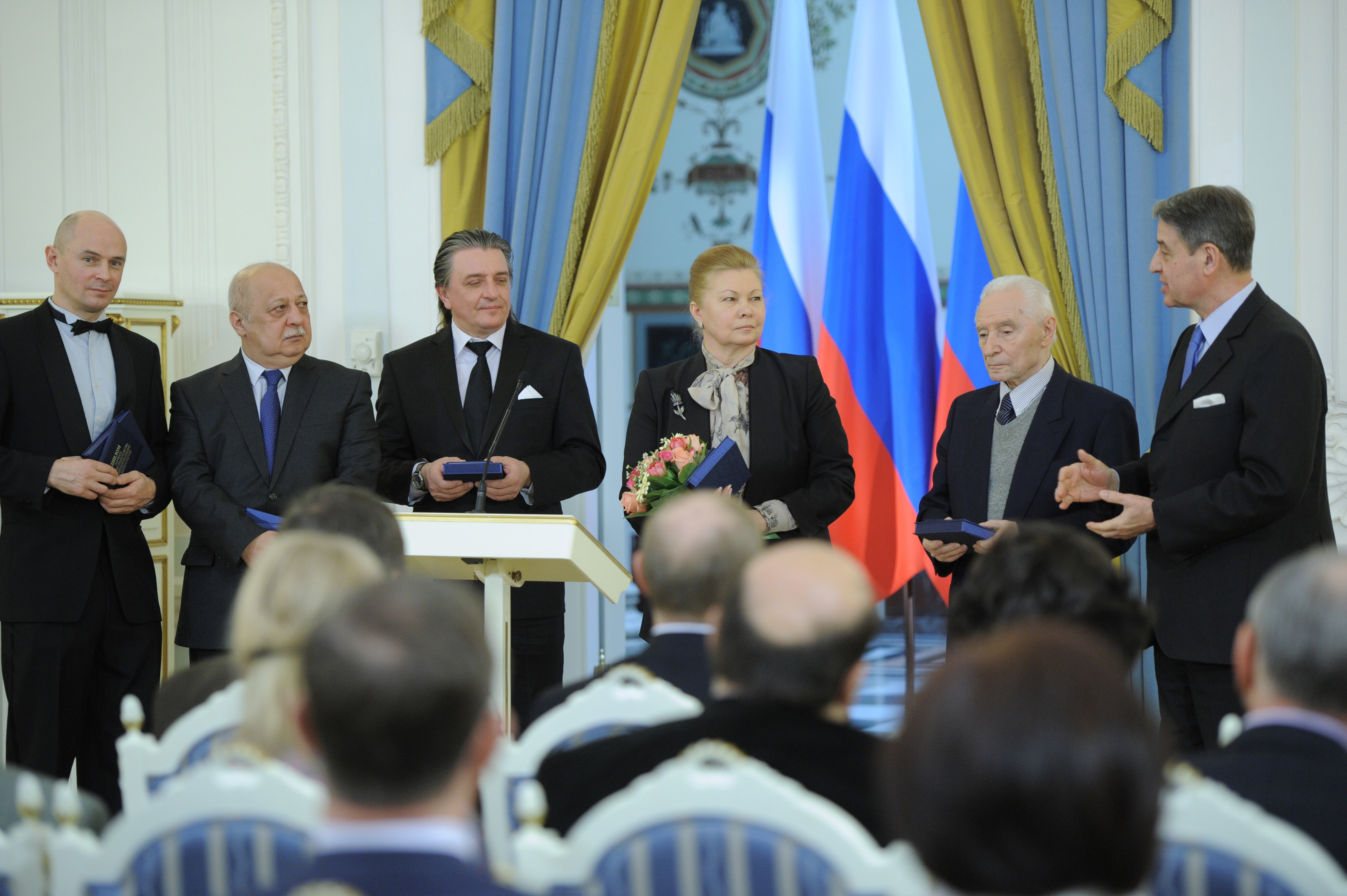 From left to right: Ballet master of the Bolshoi Theater Andrei Melanin, General Director of the Bolshoi Theater Takhir Iksanov, director of the Bolshoi Theater Igor Dronov, rector of the Moscow State Academy of Choreography Marina Leonova, ballet master of the Bolshoi Theater Yury Grigorovich and Minister of Culture Alexander Avdeyev during the awards ceremony of the 2011 Russian Government Prizes in Culture at the Reception House of the Government of the Russian Federation.